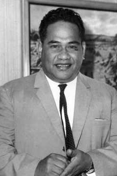 Hammer DeRoburt, the first president of Nauru.